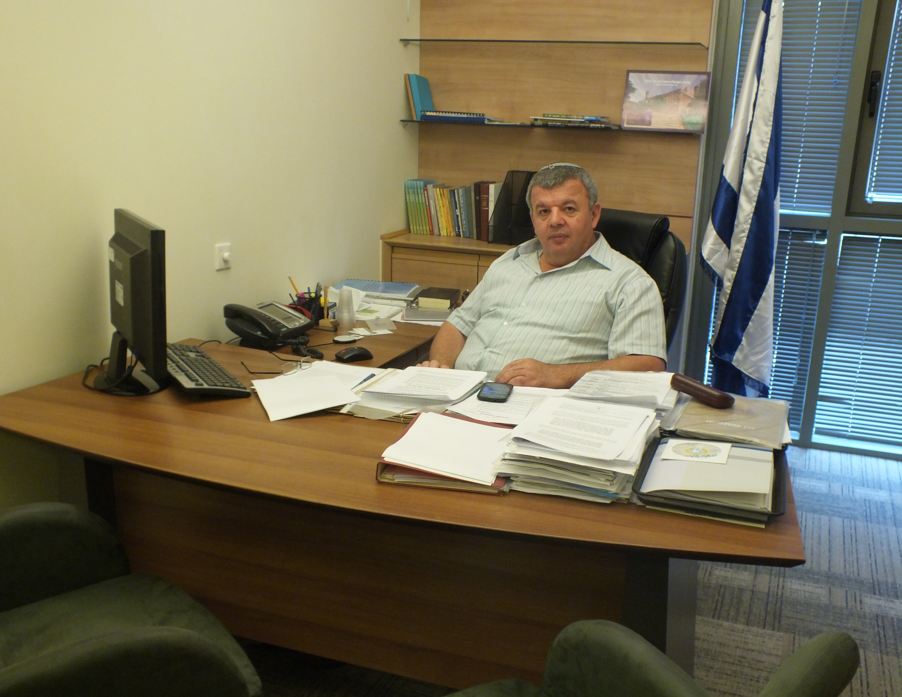 Zvulun Kalfa MK.